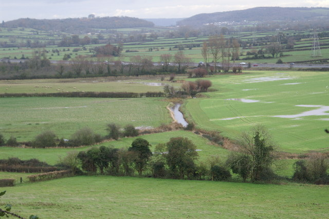 Lox Yeo River